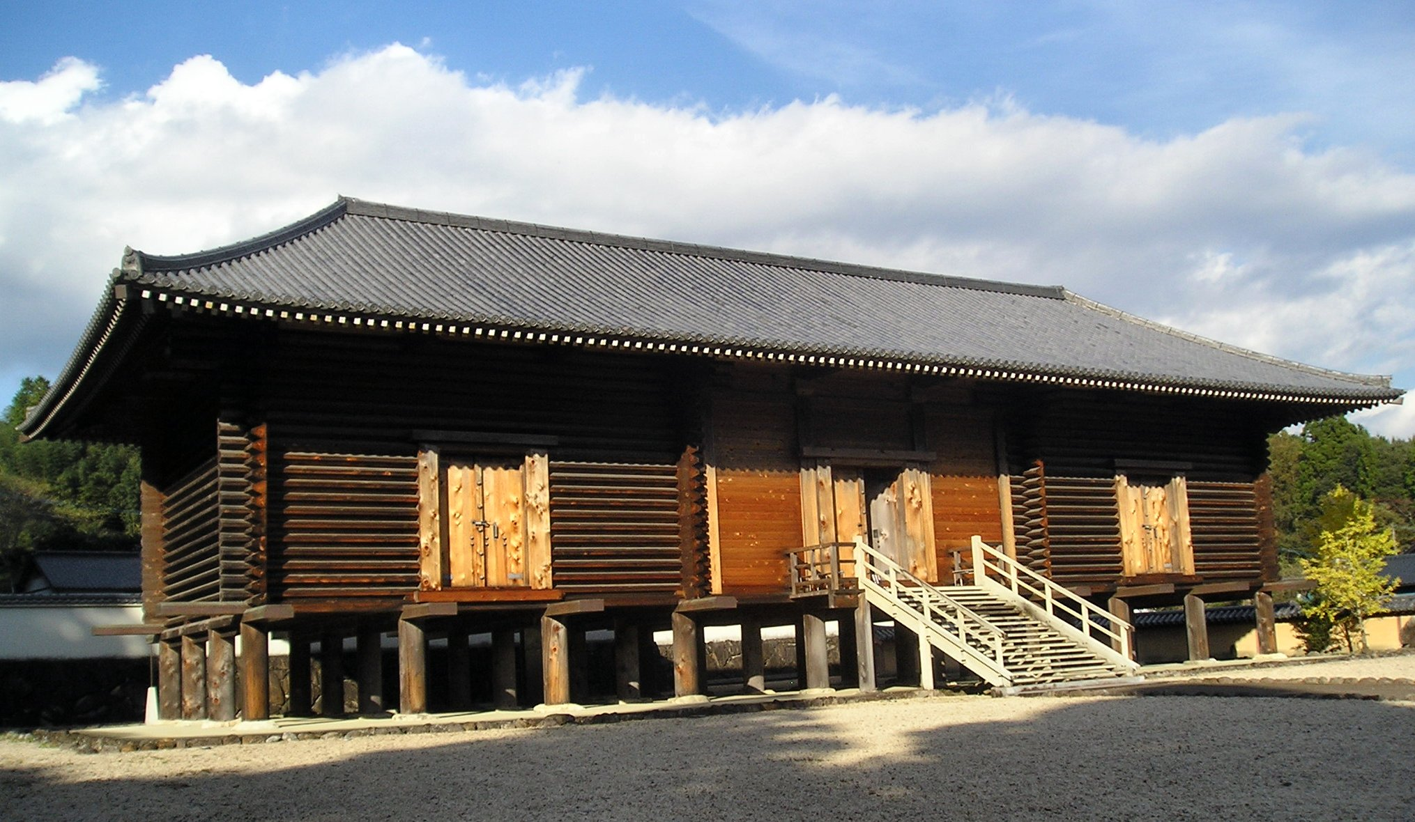 The Nishi-no-Shōsōin (西の正倉院), a replica of Shōsōin in Nara, located in Misato Town, Miyazaki, Japan